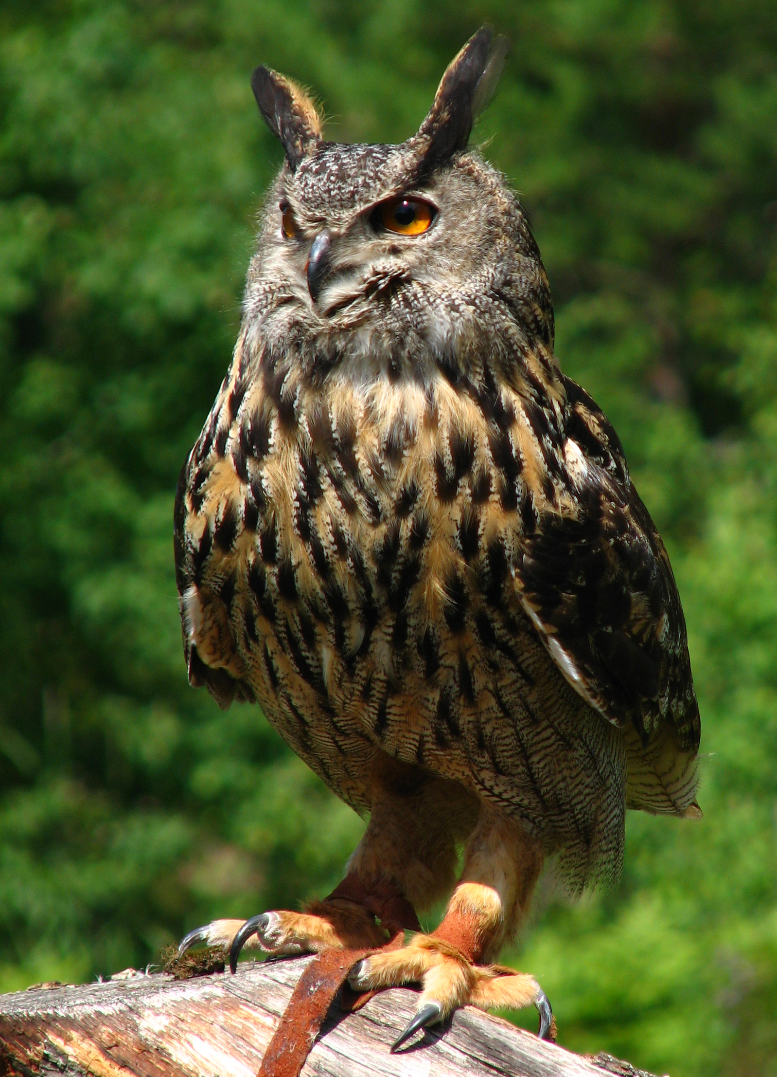 A Eurasian Eagle Owl (Bubo bubo). Photo taken during a show with birds of prey at Kolmården Zoo, Norrköping, Sweden.